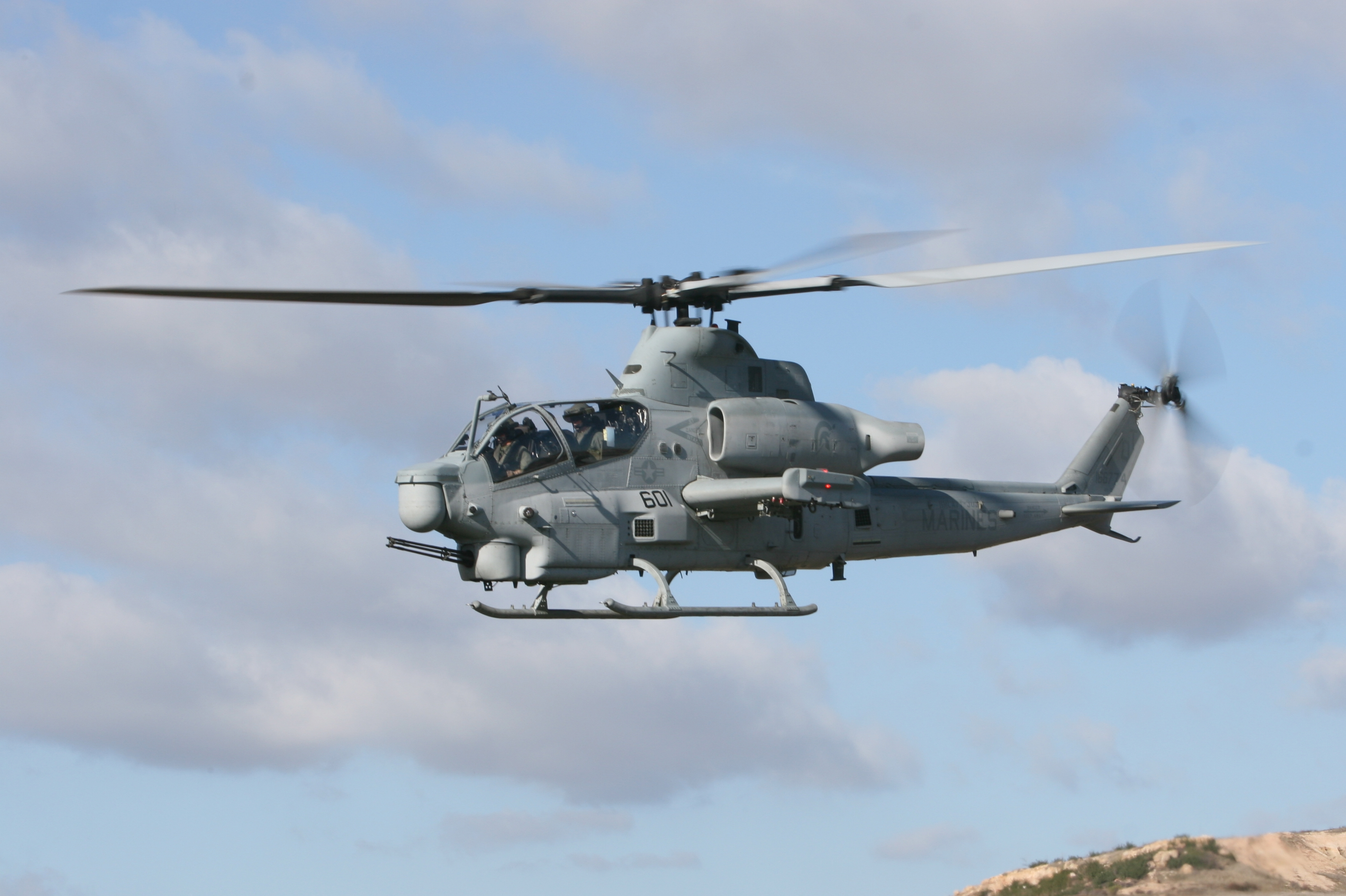 U.S. Marine Corps pilots from Marine Light Attack Helicopter Training Squadron 303, Marine Aircraft Group 39, 3rd Marine Aircraft Wing maneuver a AH-1Z Viper belonging to the squadron during training aboard Marine Corps Base Camp Pendleton, California (USA), 19 December 2008.